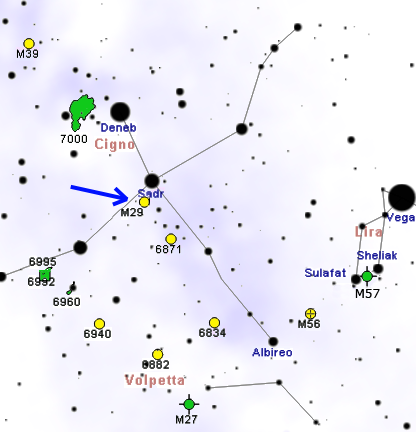 M29